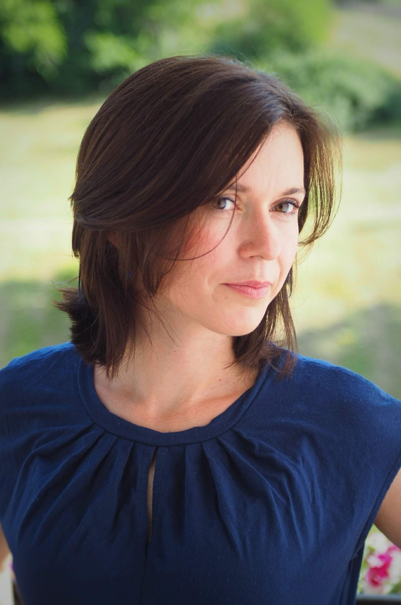 Timea Magyar, actress. 2018.